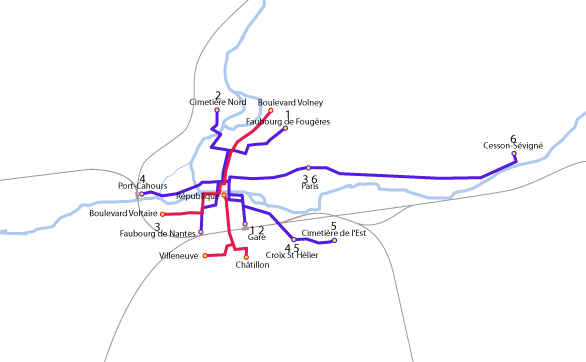 Tram & bus system in Rennes, in 1933